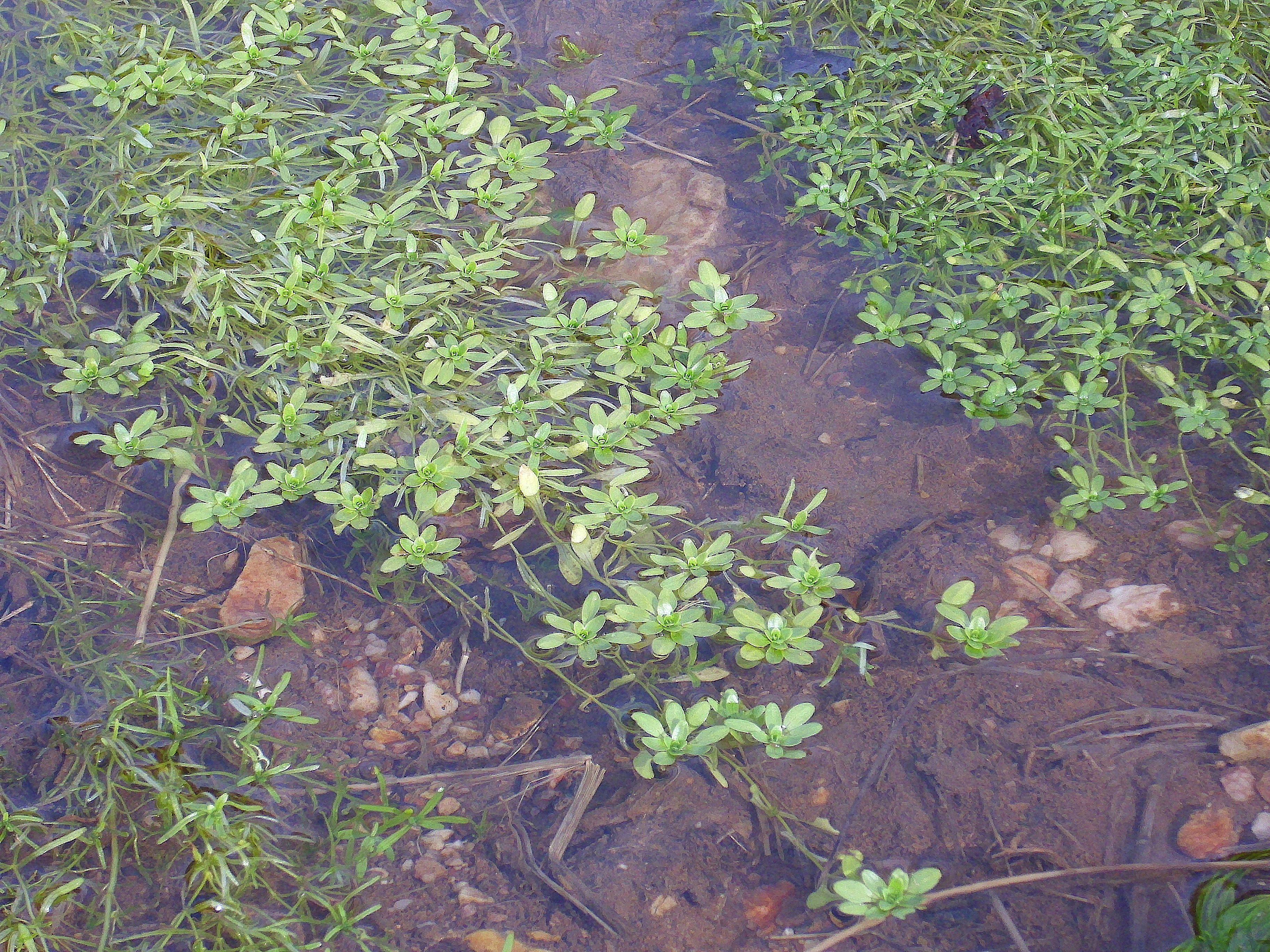 Callitriche brutia habit, Sierra Madrona, Spain